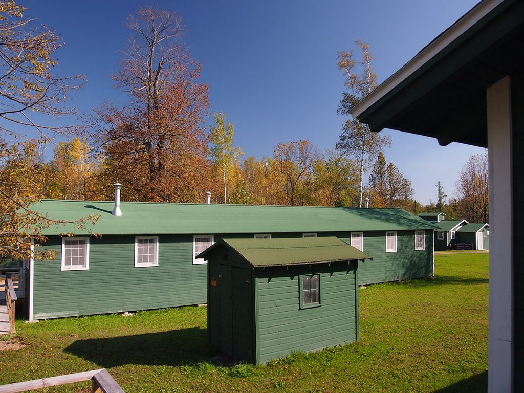 Rabideau CCC Camp, Chippewa National Forest south of Blackduck, Minnesota, USA. One of the nation's very few surviving Civilian Conservation Corps camps. View north-northeast from the porch of barracks toward a shed, another barracks, and (background right) the mess hall.